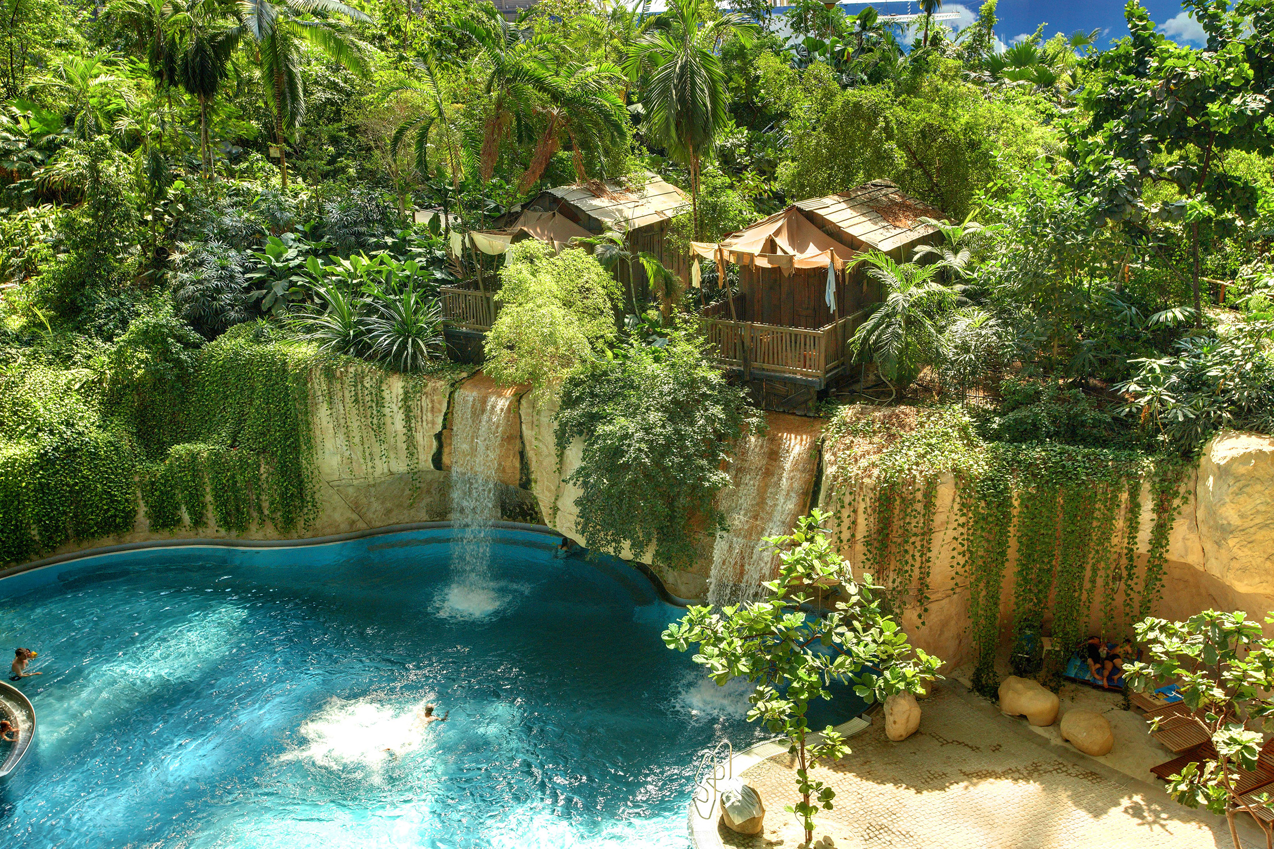 Tropical Islands lodge